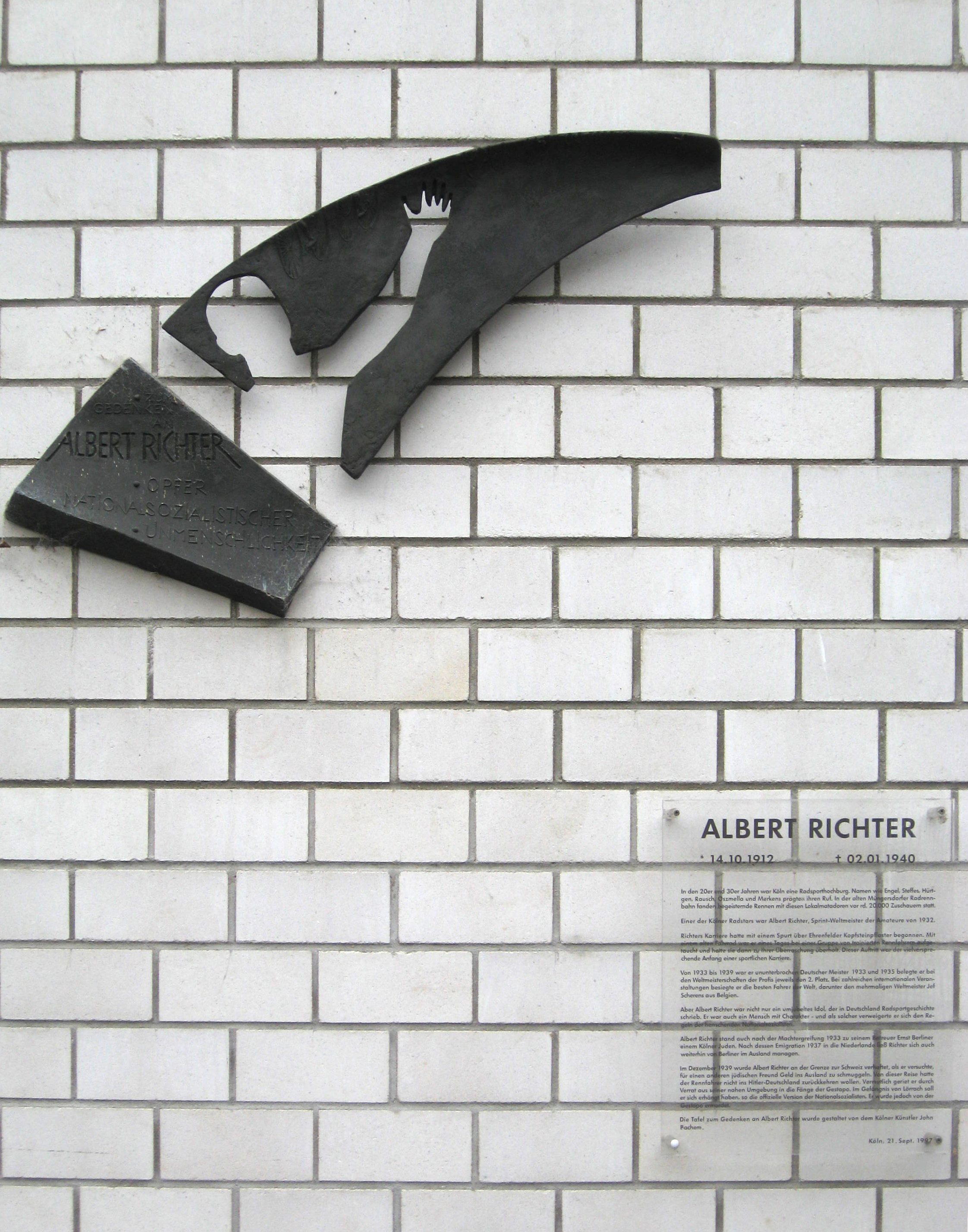 Albert Richter commemorative plaque designed by John Bachem. Outside Radstadion Köln Albert Richter velodrome, (Germany). The velodrome was opened in 1996 and bears Richter's name due to a citizens' initiative.